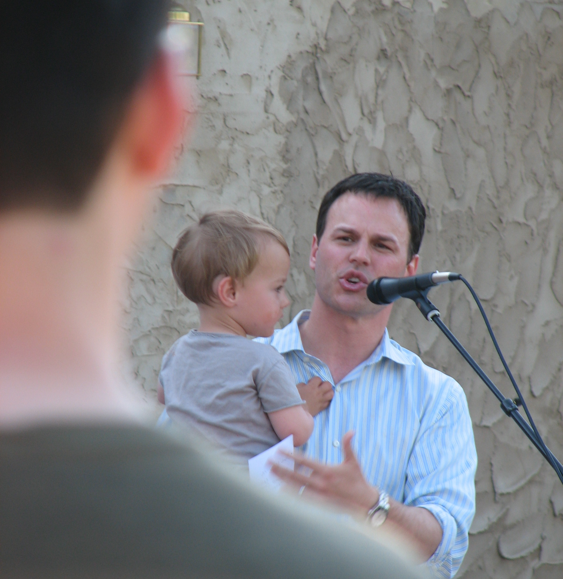 Andrew addressing a group in his senate district